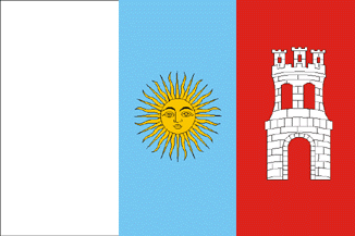 (inofficial) Flag of Cordoba province, Argentina